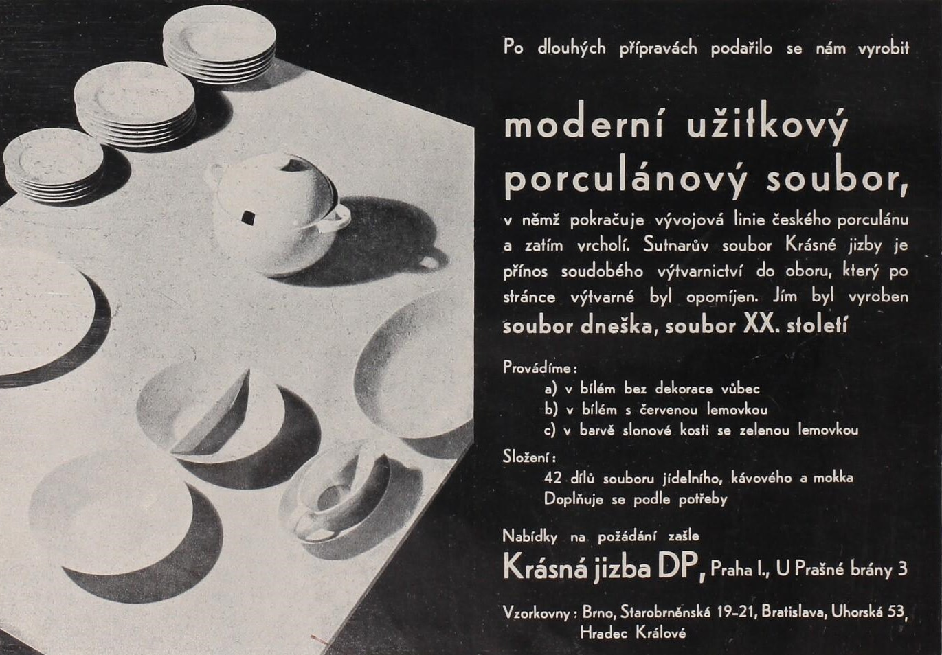 Ladislav Sutnar, china set, 1933